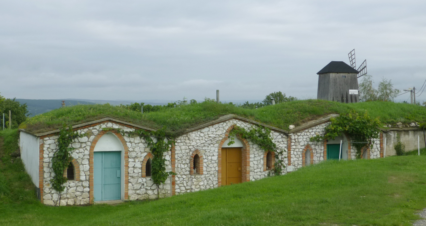 Wine cellars and windmill, Vrbice Břeclav District, South Moravian Region.